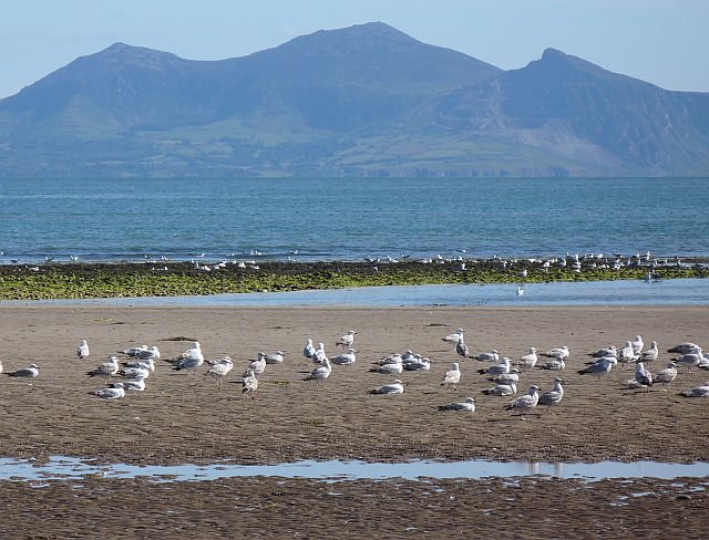 Herring Gulls on Llanddwyn Beach These gulls were congregating in the early evening just as the tide was rising. The mountains in the background are Yr Eifl on the Lleyn Peninsula SH3644.